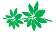 Leaf morphology whorled (extraction of Leaf_morphology_no_title.png)